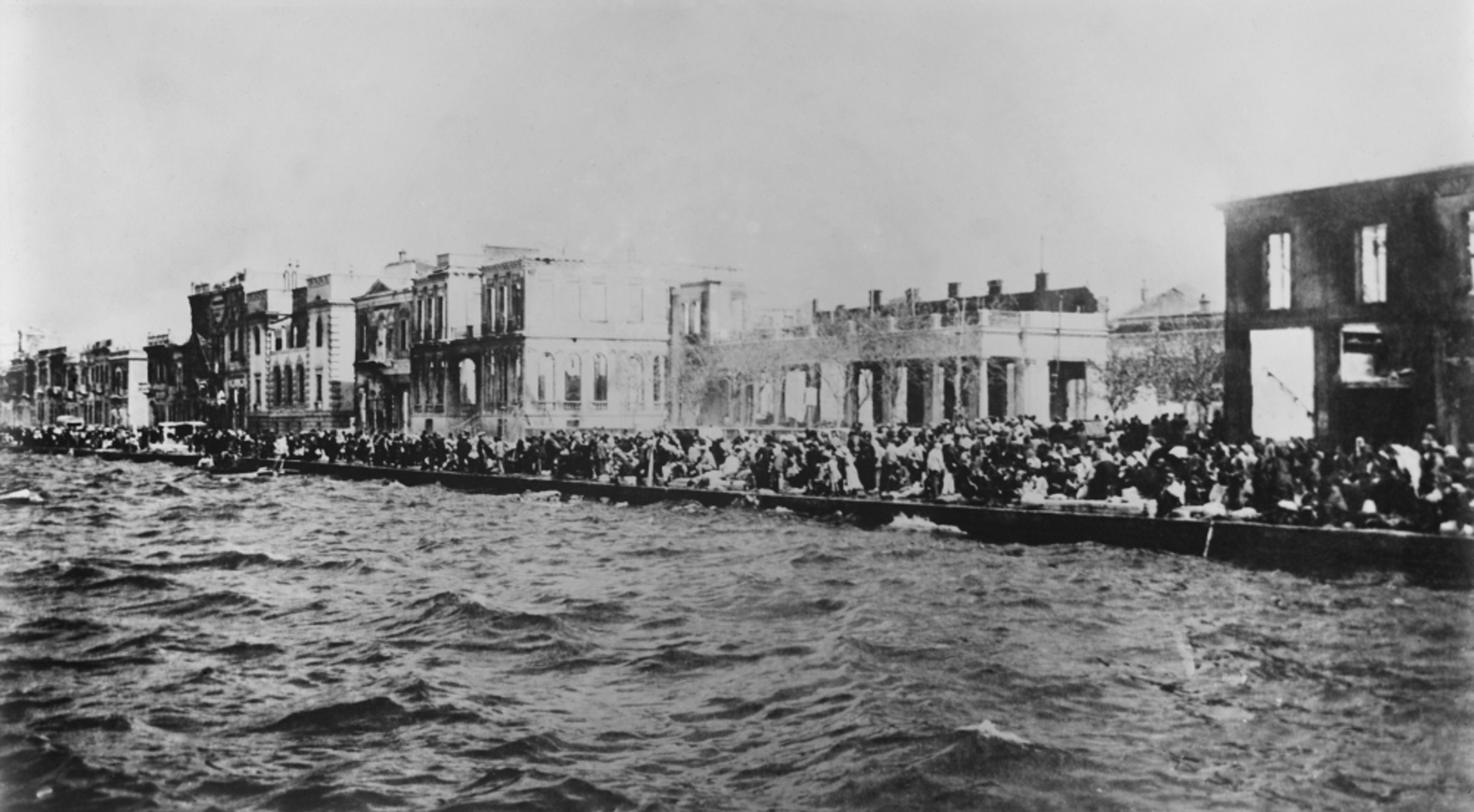 Smyrna fire, 1922. Buildings on fire and people trying to escape. 13-14.Sep.1922.